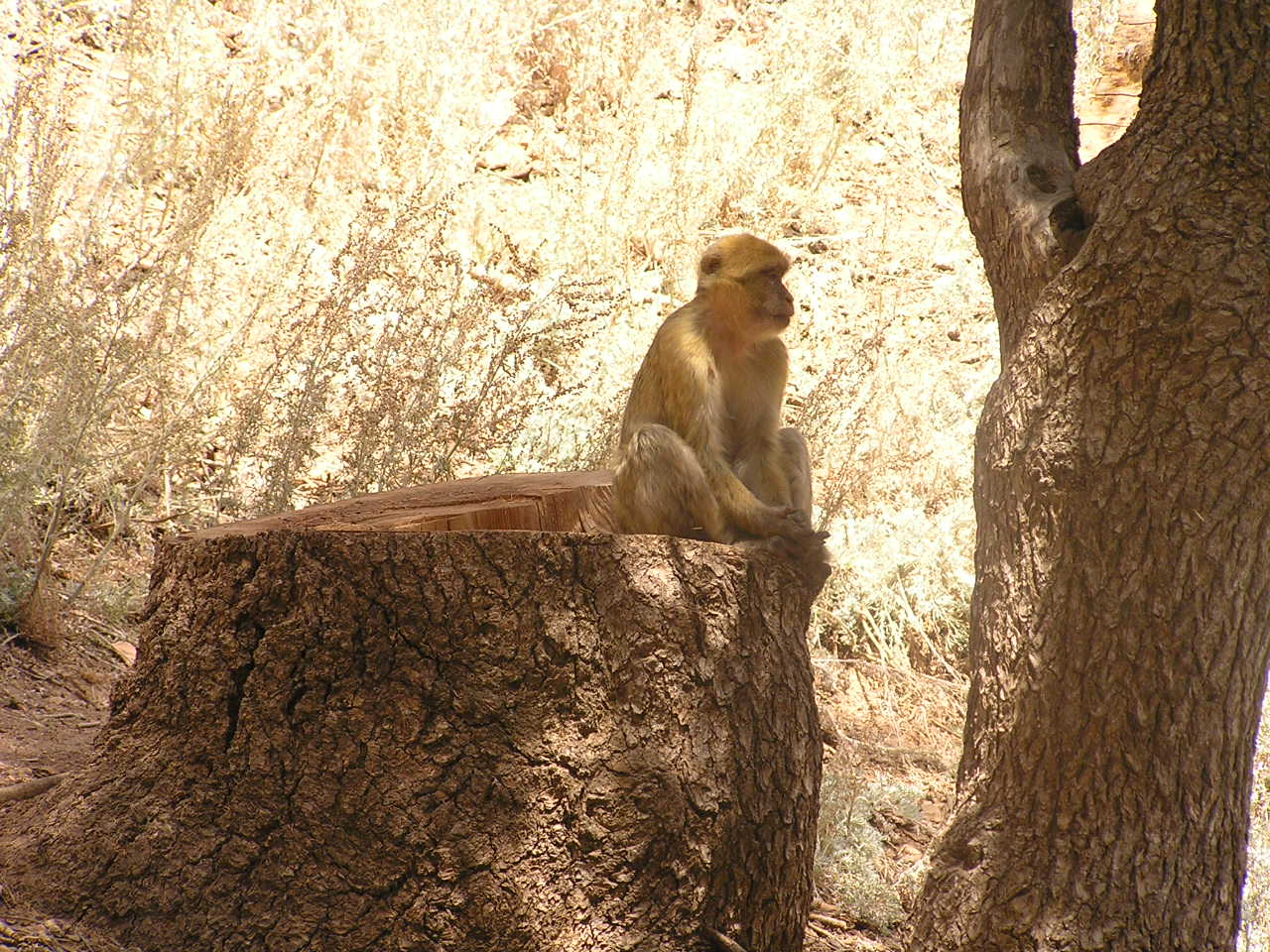 Wild Barbary Macaque of Kabylie, in the national park of Djurdjura (Algeria).